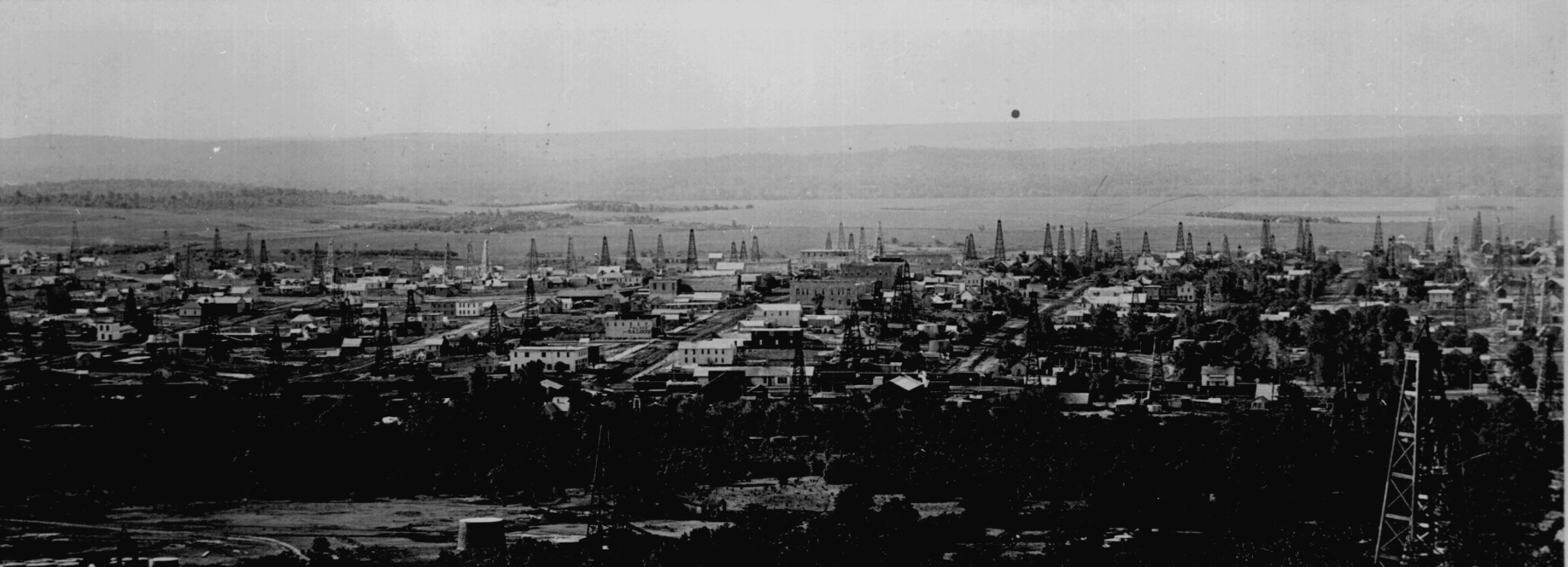 Cleveland. The City of Oil Derricks. Panoramic view of an Oklahoma Territory town a year after the discovery of oil there. By Dick Man, 1905.